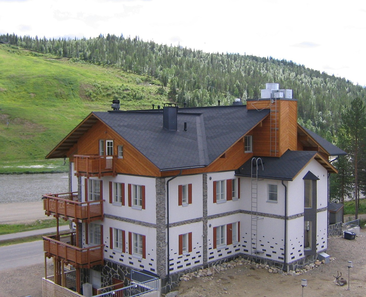 Typical accommodation house at Levi ski resort in Kittilä, Finland